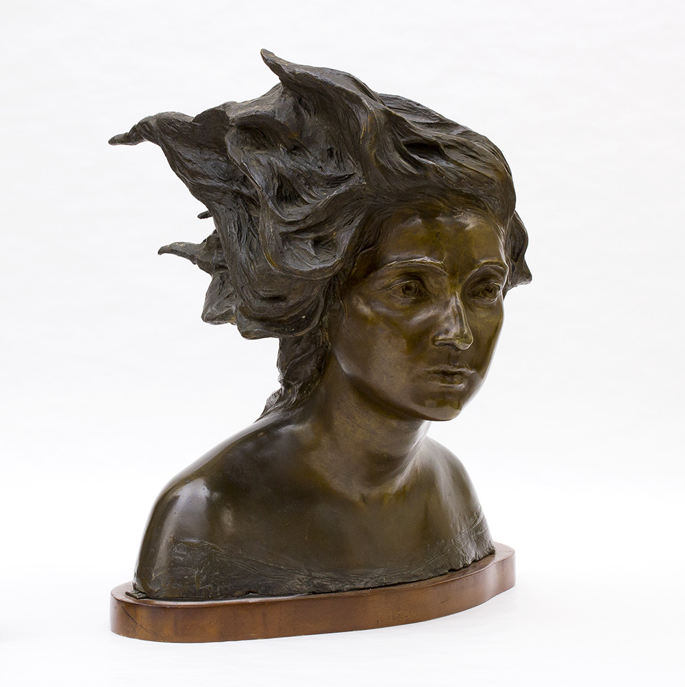 Busto ritratto in bronzo raffigurante l'attrice Emma Gramatica, realizzato dallo scultore Mario Rutelli nel 1905